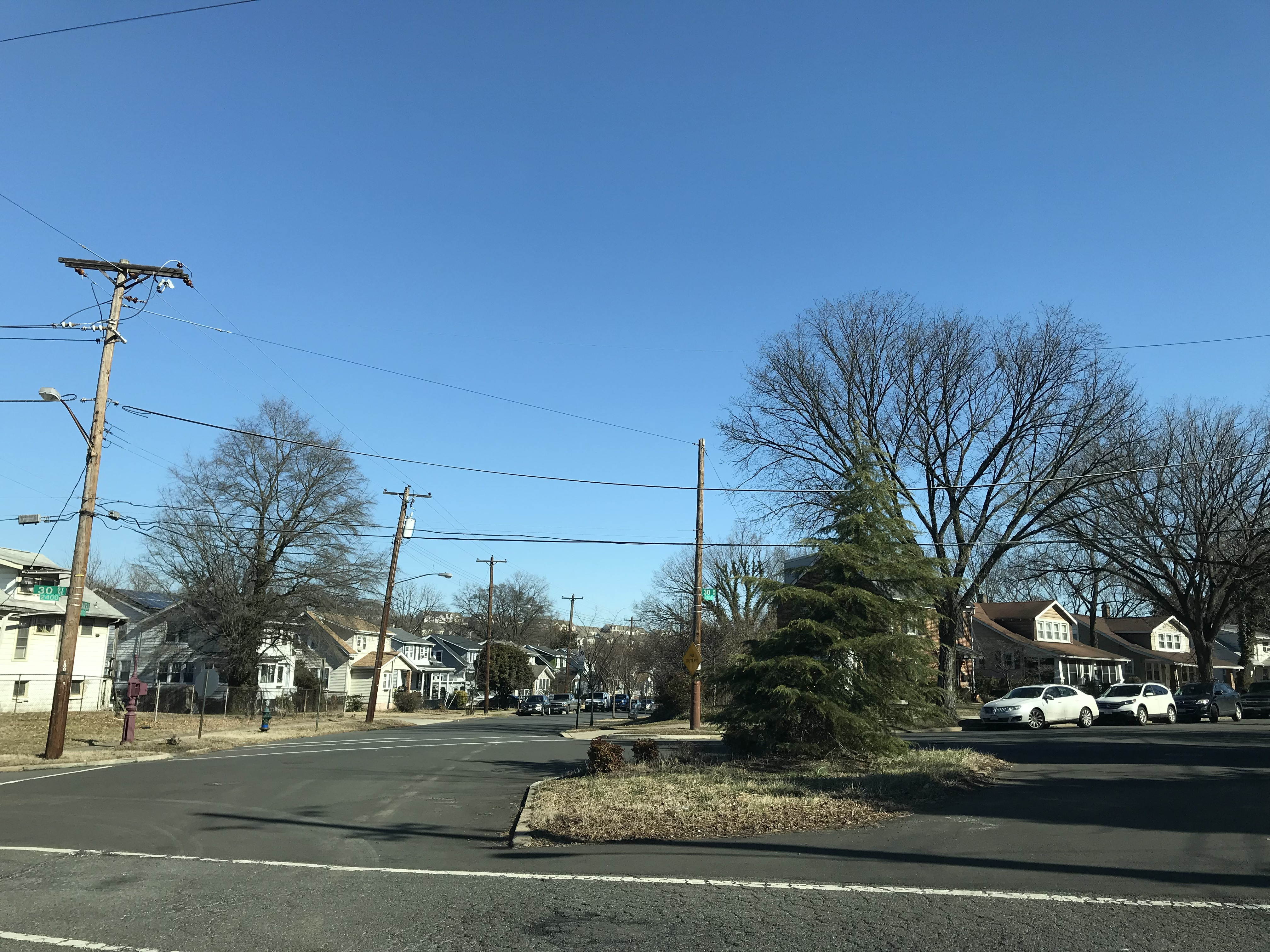 Intersection of Adams St and 30th Pl. NE, in Gateway, February 2019